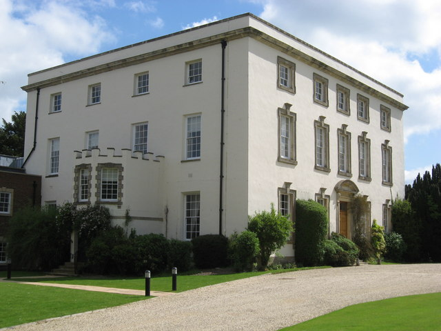 Burderop House Burderop house was the subject of Richard Jefferies book 'Round About a Great Estate' and the home of the Calley family. Today it is the headquarters of the Halcrow organisation.